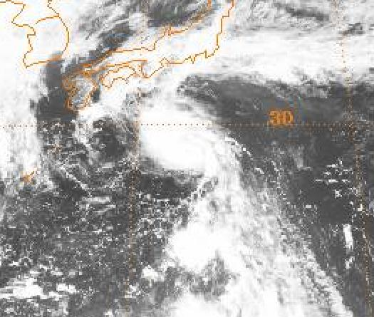 Typhoon Nathan on July 24, 1993.